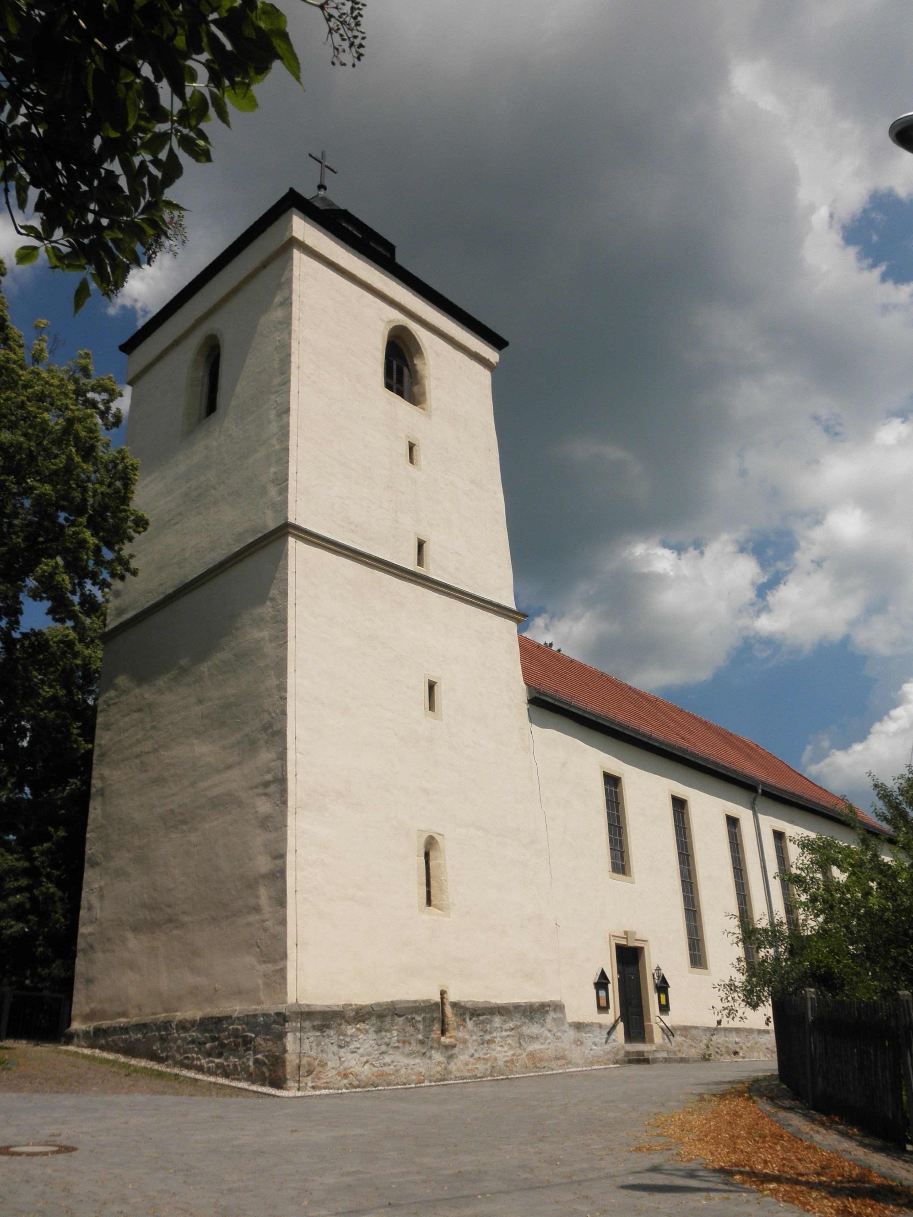 Church in Krölpa (Pößneck) in Thuringia